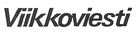 Finnish-language weekly in Sweden 1967–2003